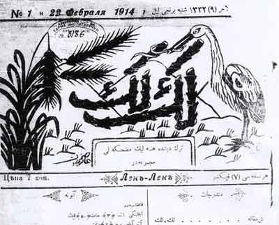 Laklak Journal from Jabbar Baghtcheban تورکجه: لك لك درگيسي